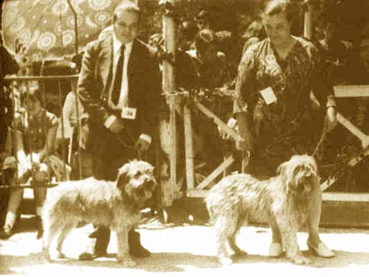 Àngel Jorba i la seva esposa Maria Gudayol presenten Tina i Menut a Barcelona el 1972.